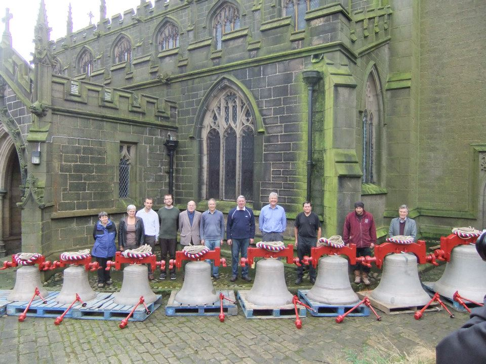 The bells of St Thomas the Apostle parish church, Heptonstall, West Yorkshire, on their return to the tower in October 2012